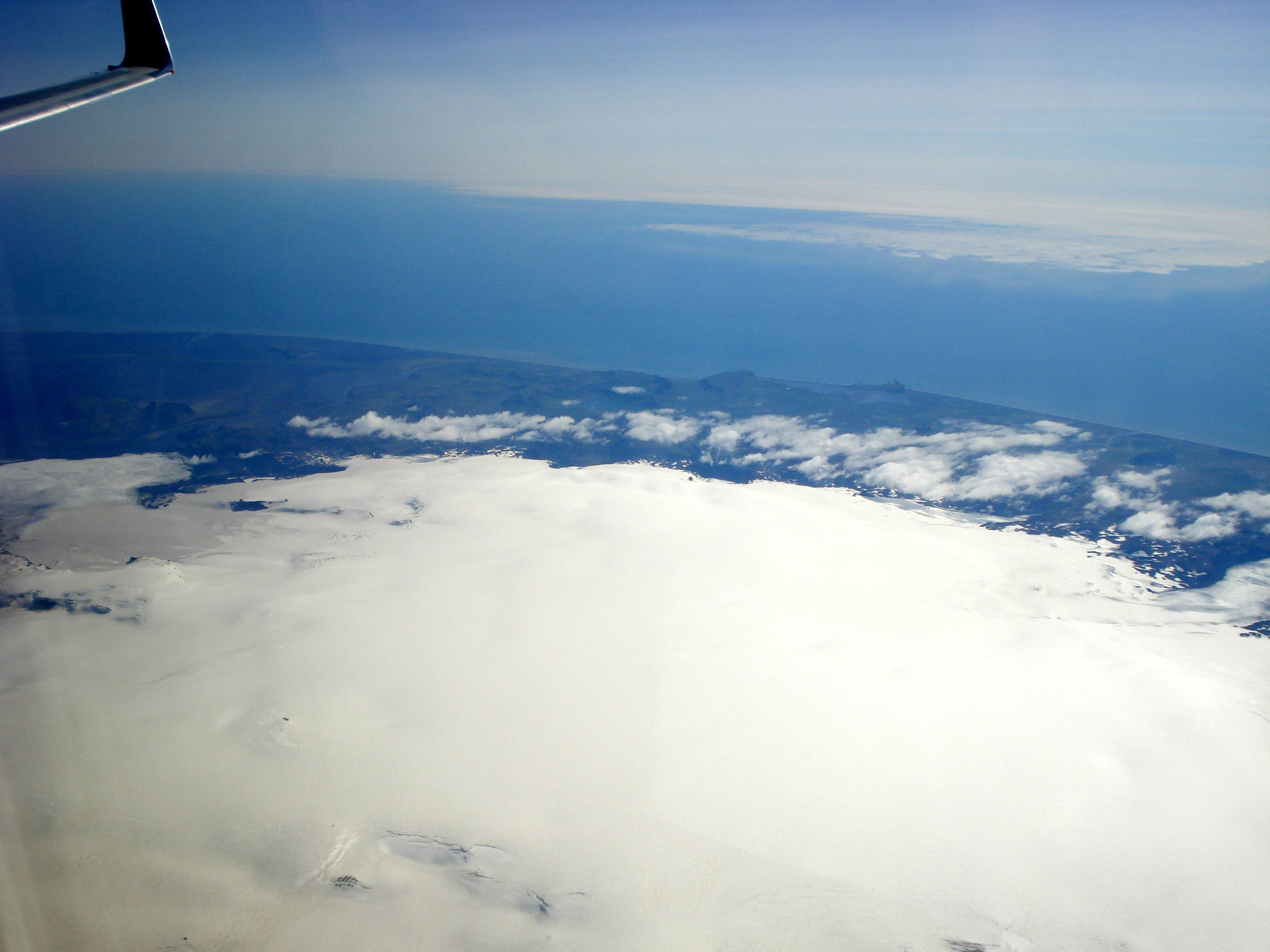 Mýrdalsjökull glacier in Iceland